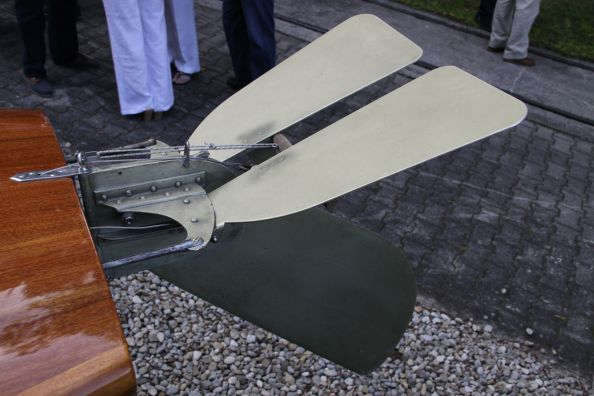 Curry-Bremse an der AERO II